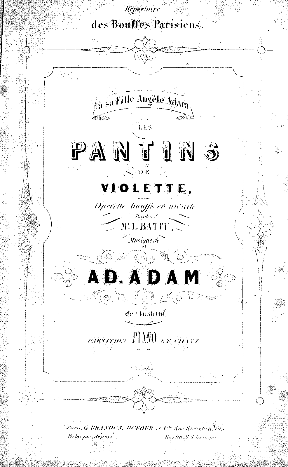 Adolphe Adam - Les Pantins de Violette, title page of piano reduction